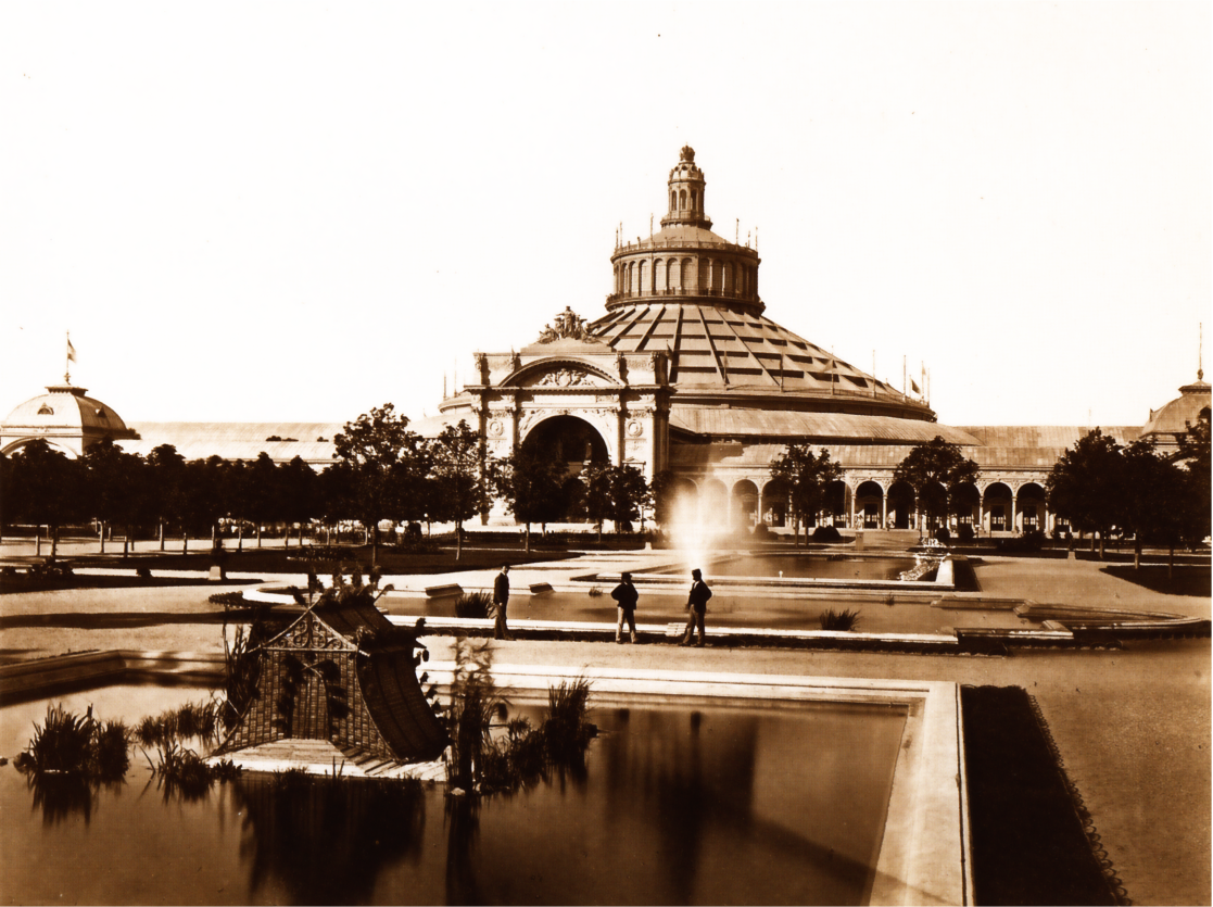 The Rotunde at the world's fair 1873